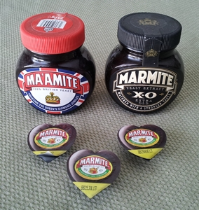 Three types of Marmite packaging from 2012. Ma'amite, in honour of Queen's Jubilee, Marmite XO, extra strength, and Marmite heart shaped individual packs.